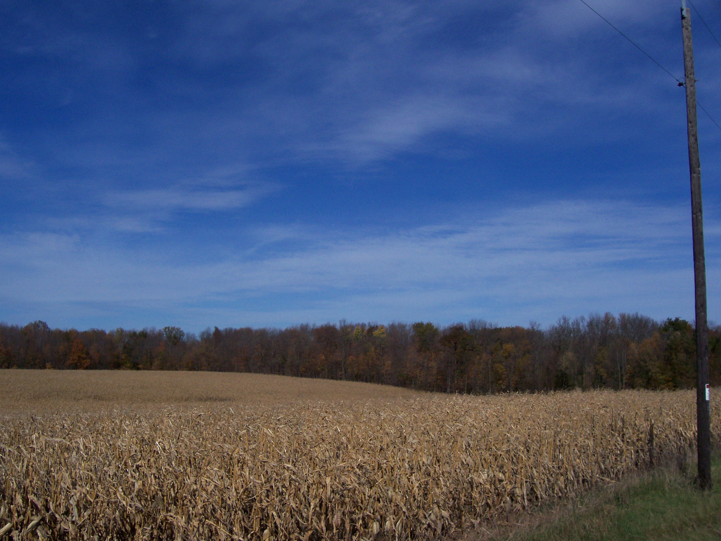 Rural fall Calumet County, Wisconsin showing its typical mix of gentling rolling fields and woods. This image was taken on October 15, 2006 by User:Royalbroil.